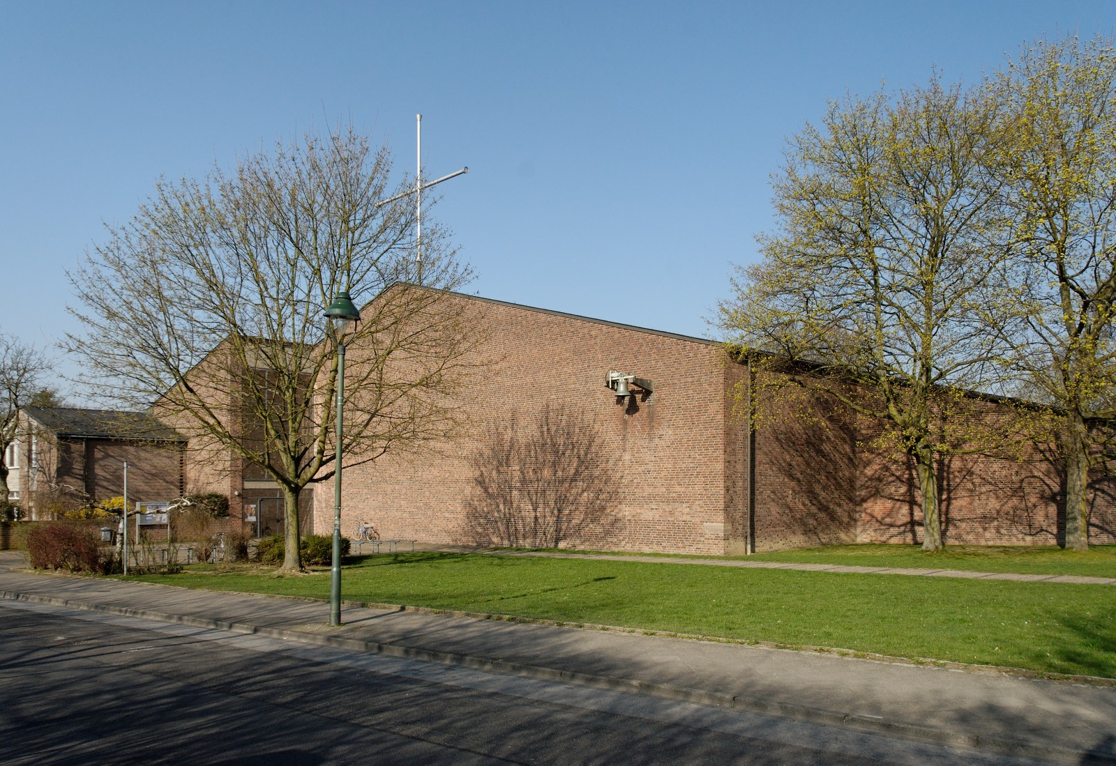 Saint Maria in den Benden in Düsseldorf-Wersten, Germany